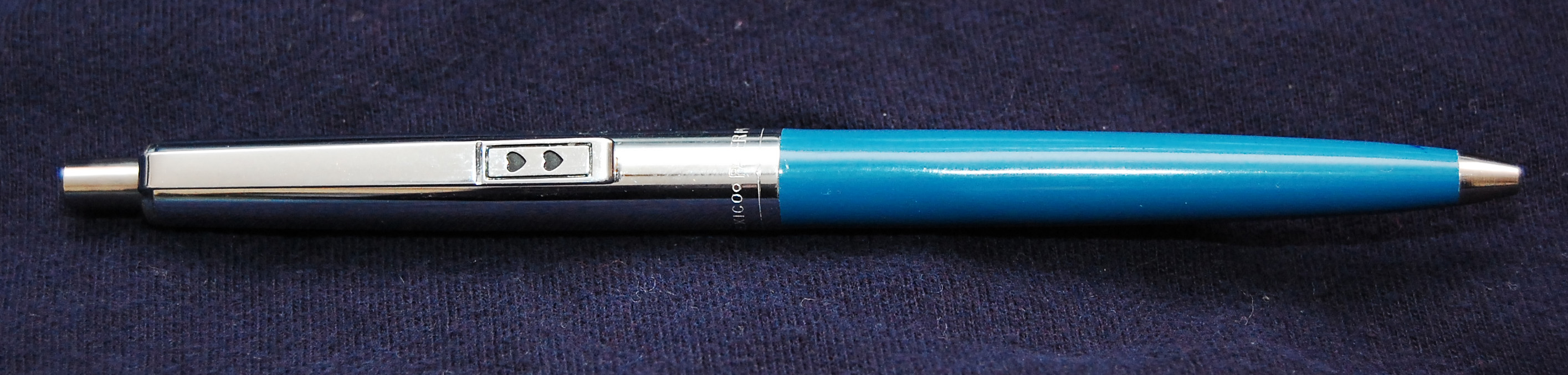 The classic Papermate Profile ballpoint pen